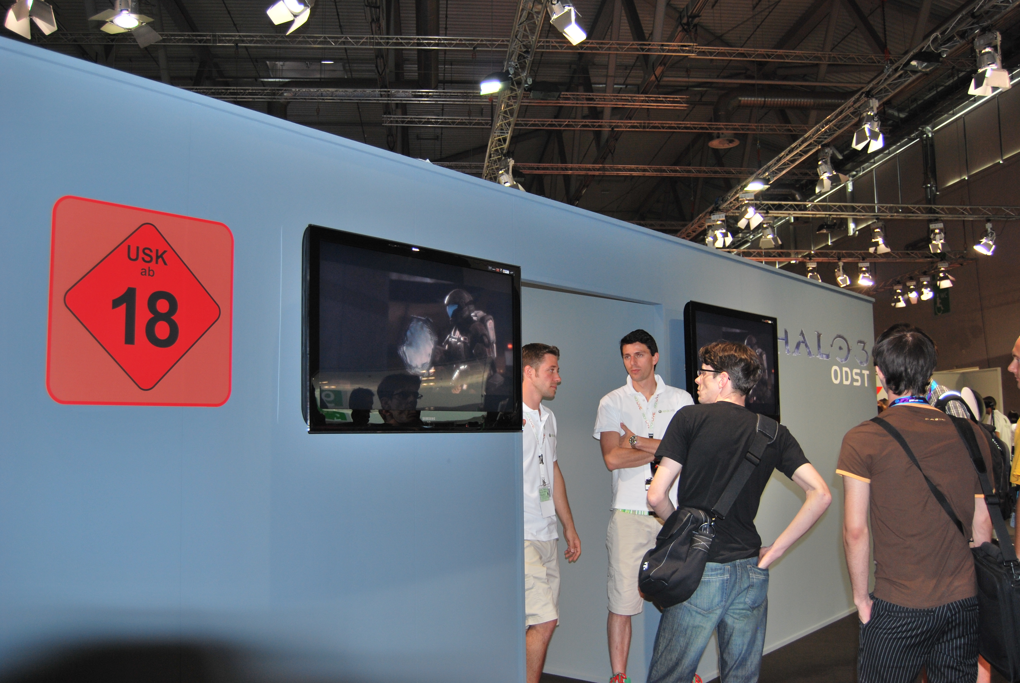 GamesCom Cologne Germany 2009